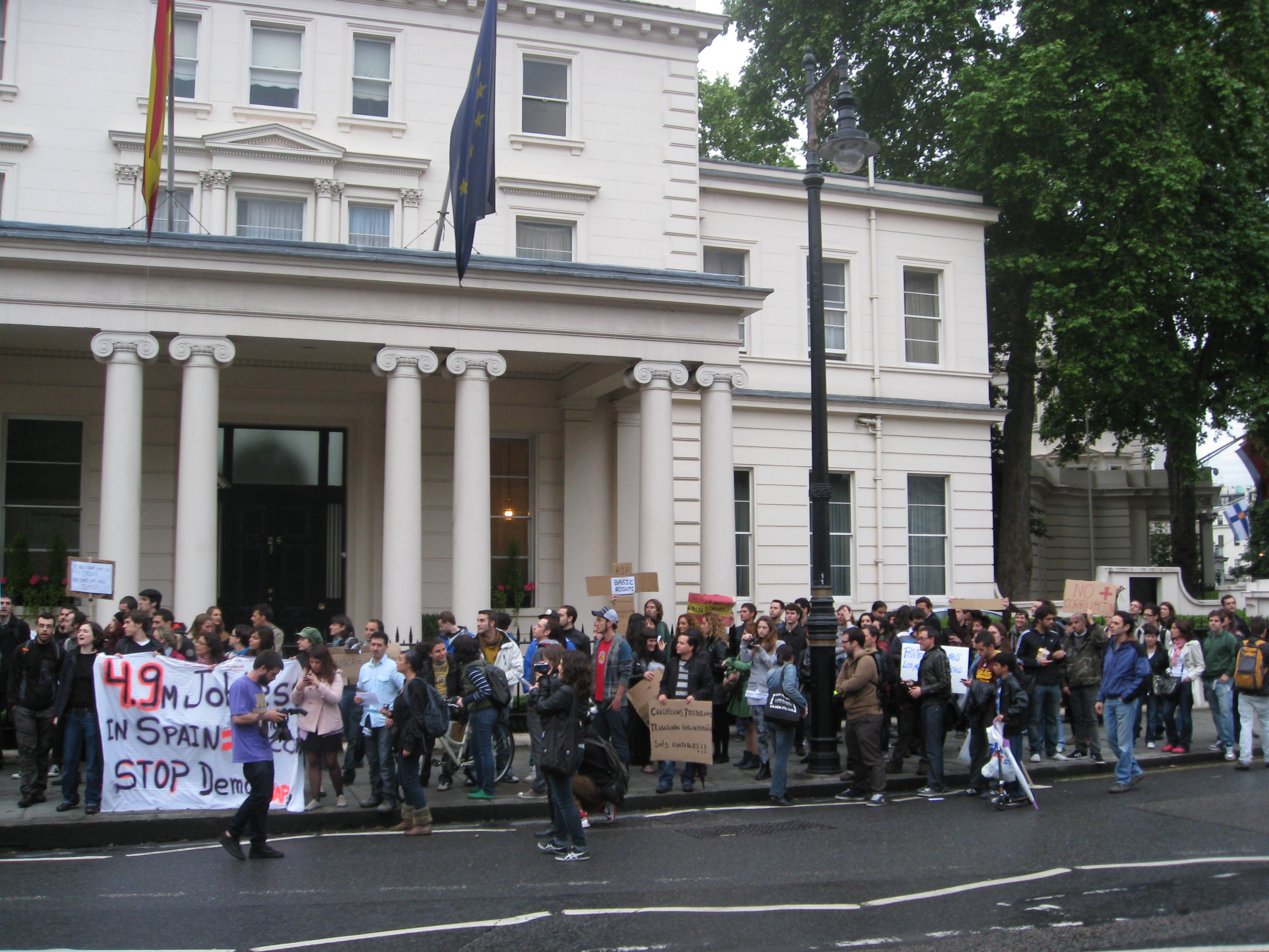 Spanish Protests 2011 - Spanish Embassy in London.